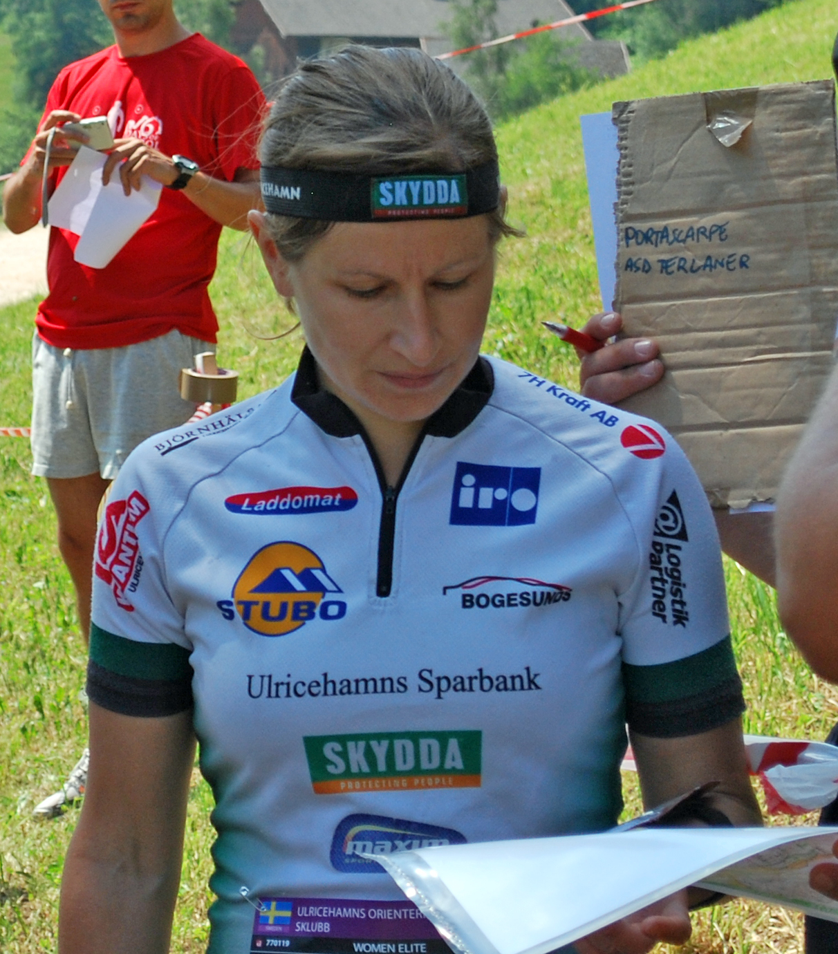 Jenny Johansson at Start of "6 days of Tyrol 2010", leg 3, Deutschnofen